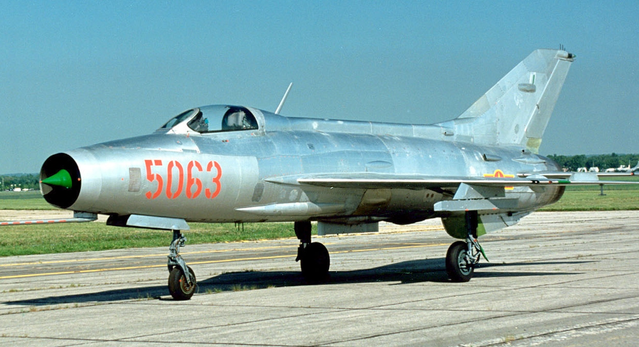 Cropped in shot of this Original file DAYTON, Ohio -- Mikoyan-Gurevich MiG-21PF “Fishbed” at the National Museum of the United States Air Force. (U.S. Air Force photo)